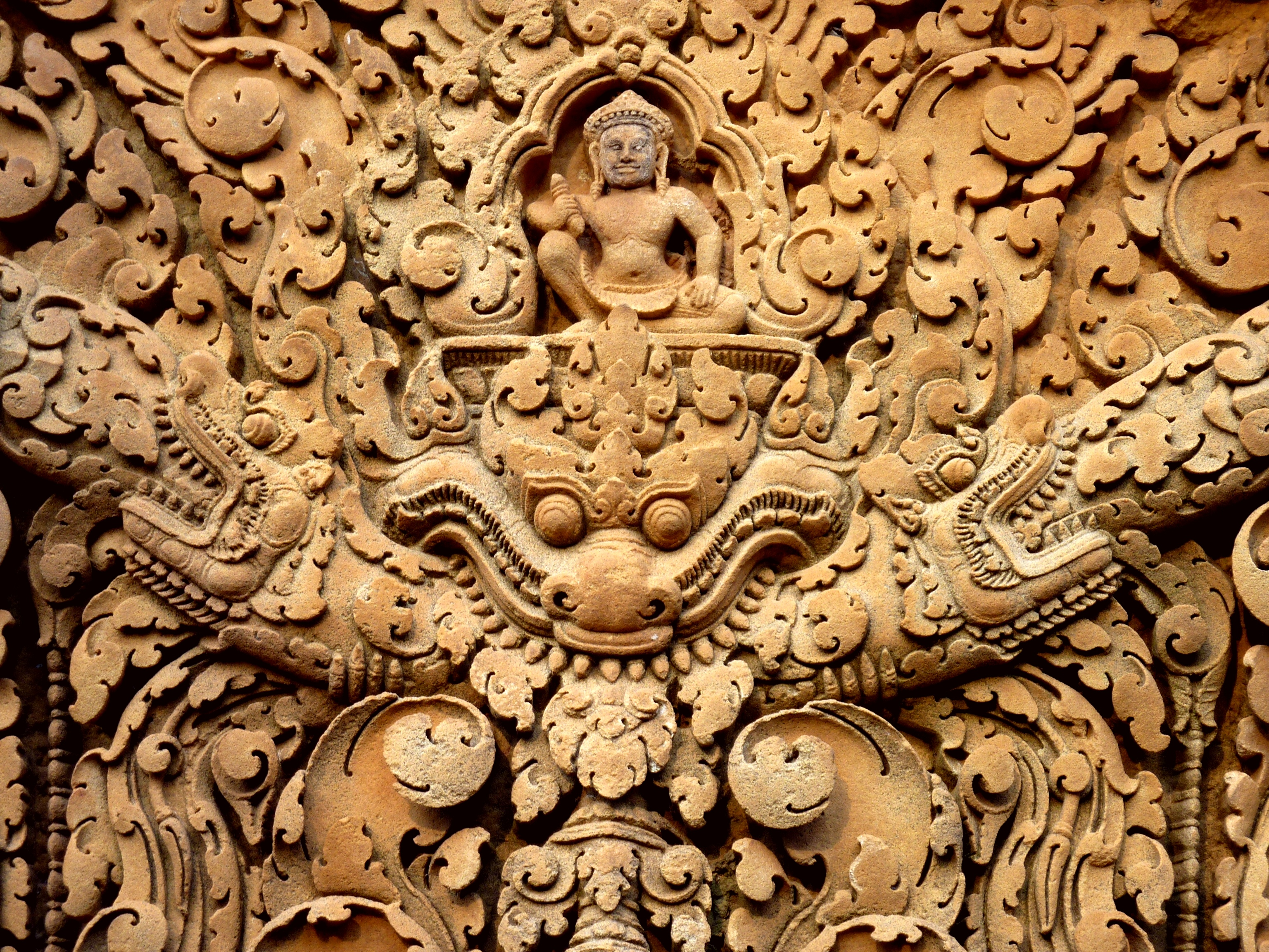 Banteay Srei Temple Unidentified God, Cambodia